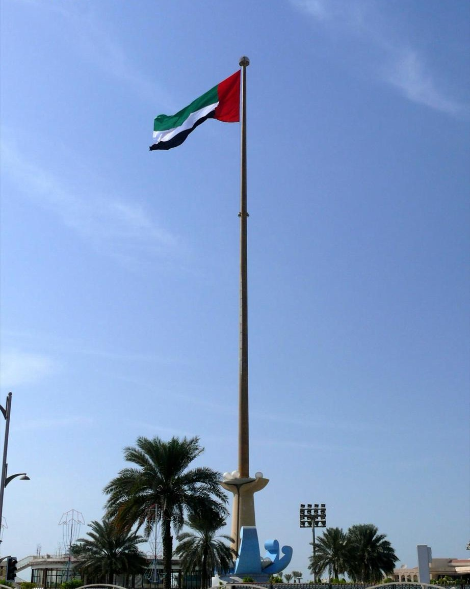 This is a photo of the flag pole at Union House in Dubai, United Arab Emirates on 2 December 2007 (UAE National Day).